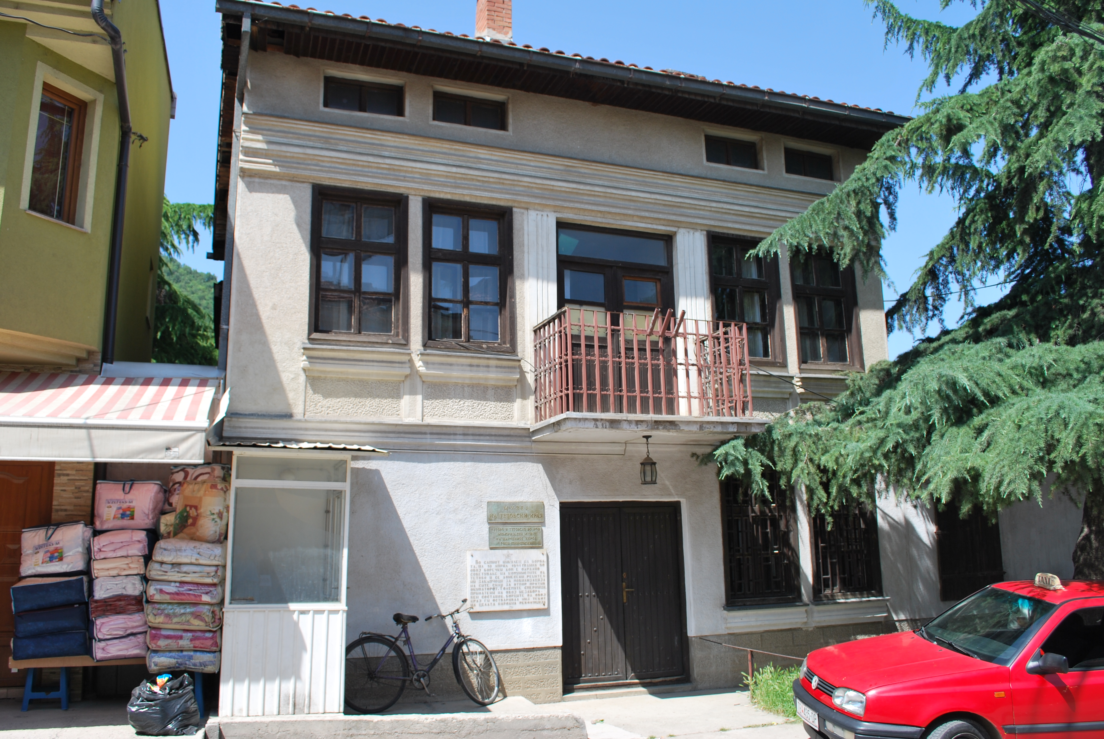 Museum of Tetovo area in Tetovo, Macedonia